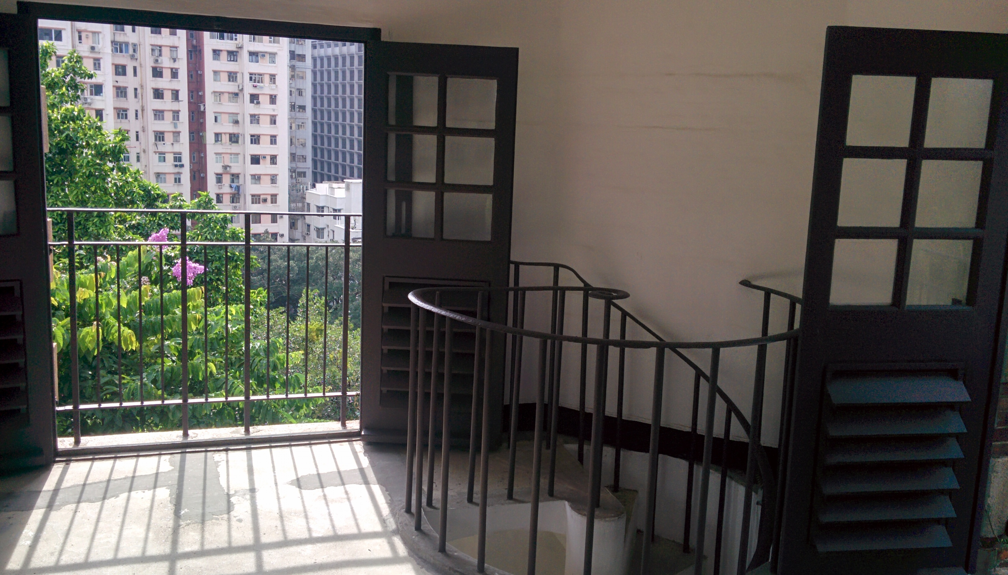 Signal Hill Tower View